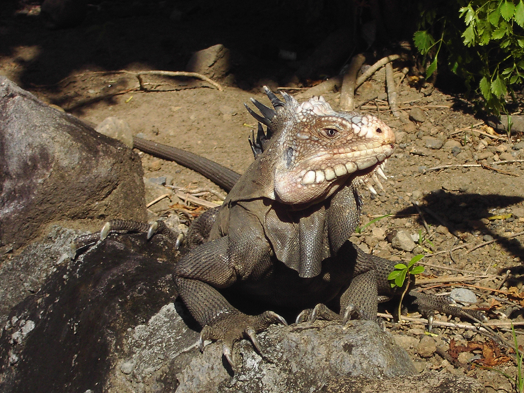 Wild Lesser Antillean Iguana at Coulibistrie, Dominica, W.I.